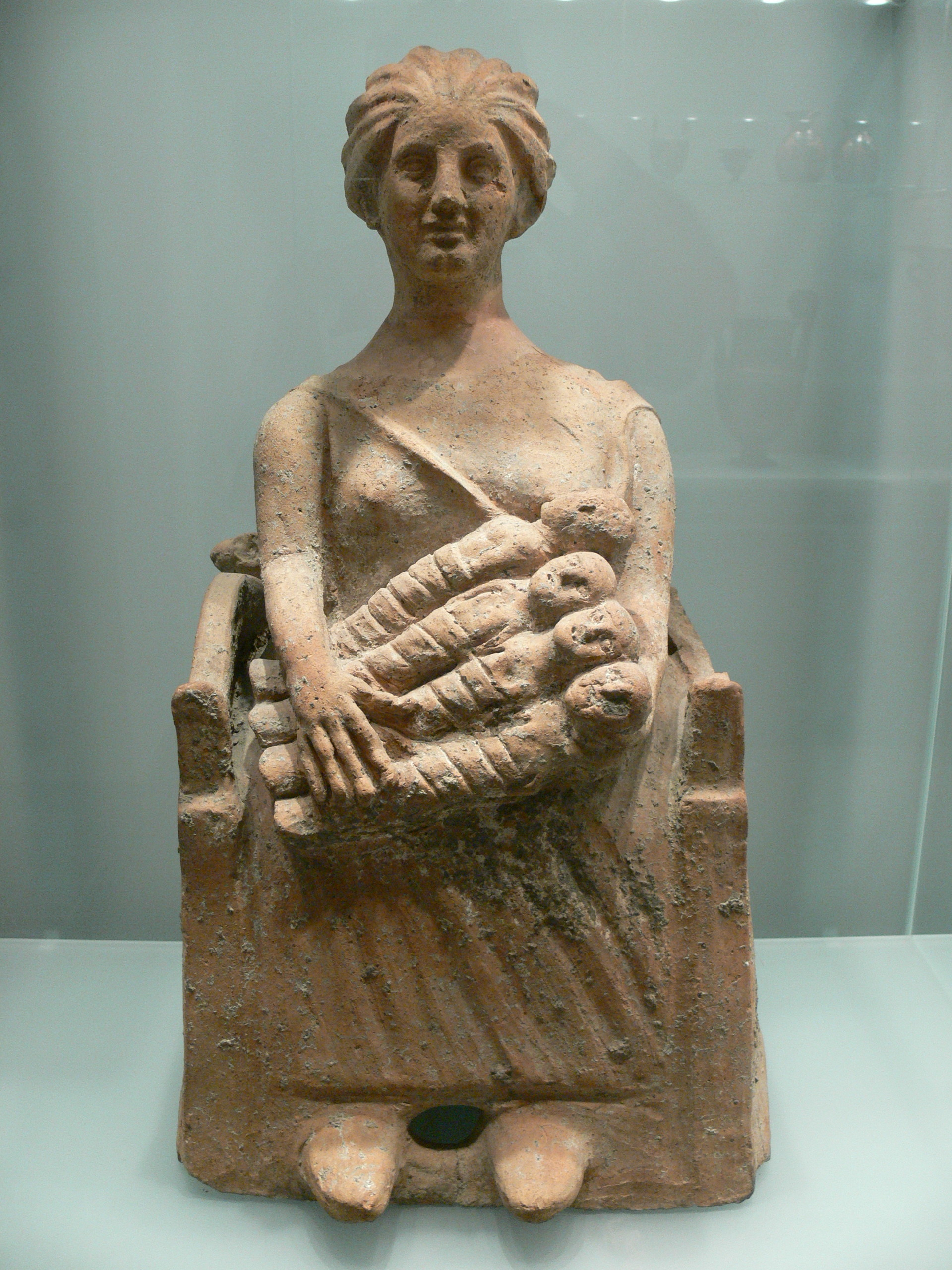 Ny Carlsberg Glyptothek, Copenhagen. Statue of a goddess of fertility.